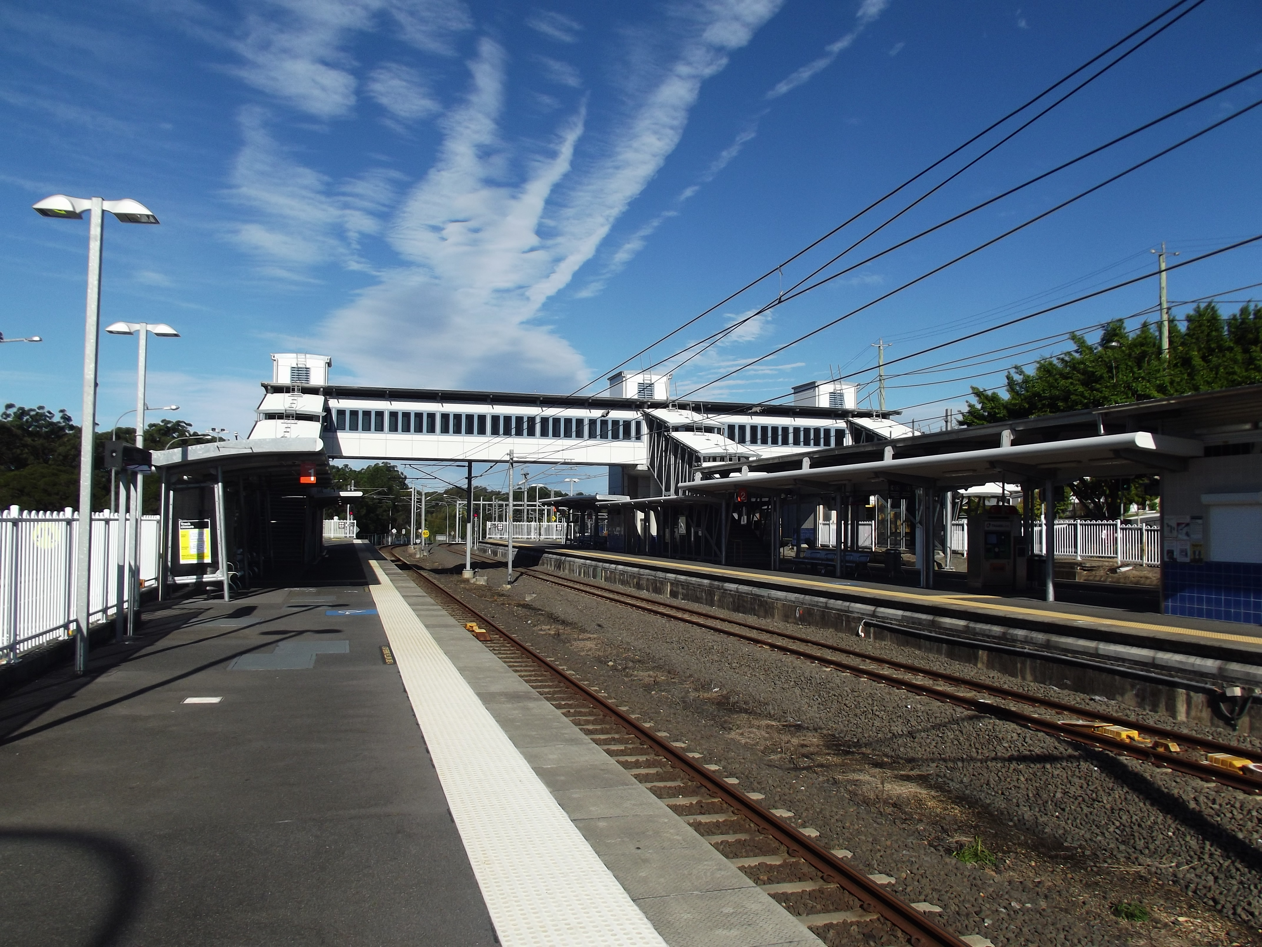 A photo of the Kuraby railway station, operated by TransLink, located in Brisbane, Queensland.